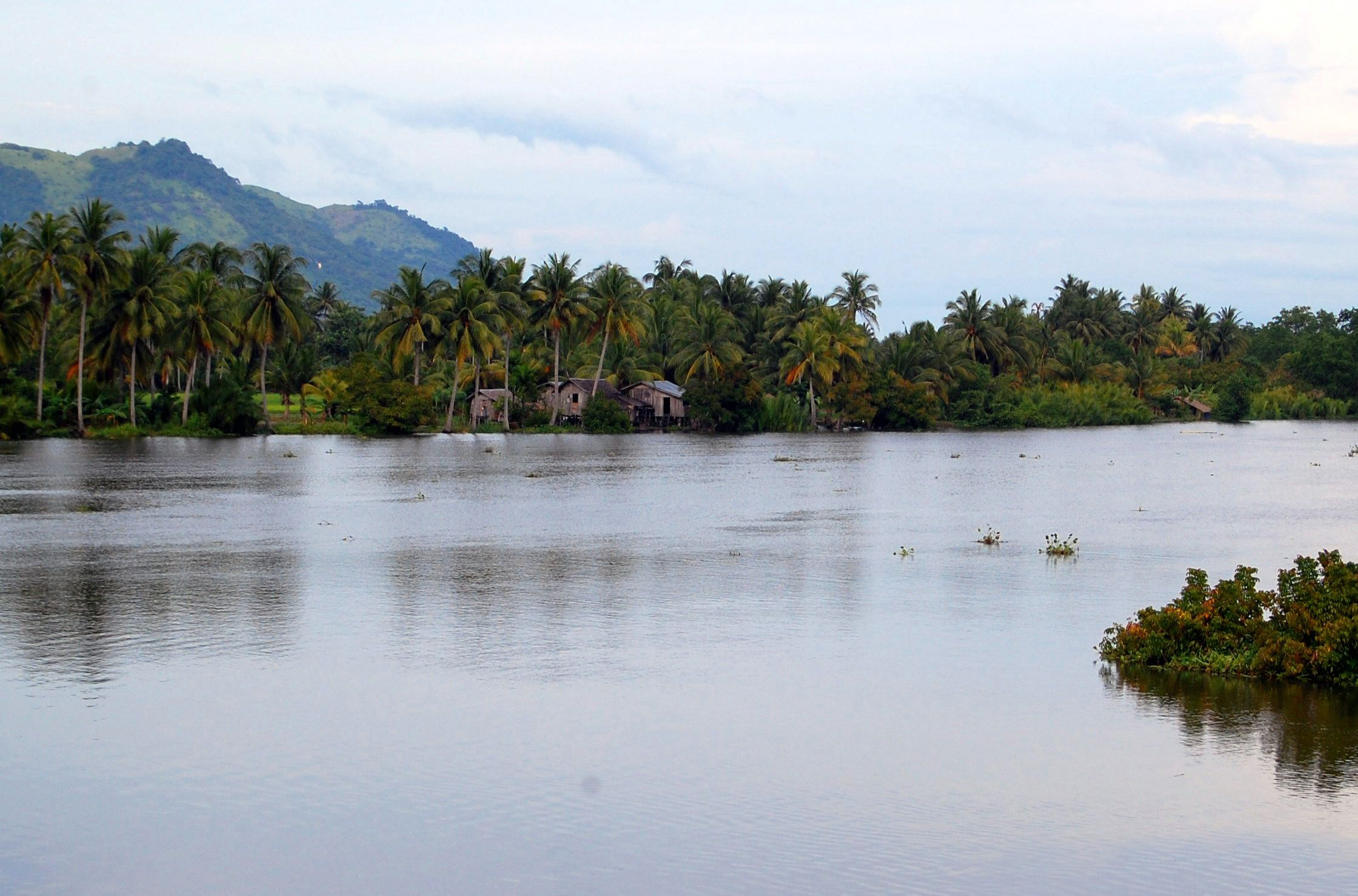 Rio Grande de Mindanao is the longest river in Mindanao and the second largest in the Philippines. Its 320 kilometer journey starts somewhere near Butuan City as the Pulangi River then joins with the Kabacan River before emptying into the Moro Gulf through Cotabato City. Nikon D40 (Oxfam-GB Learning Workshop, August 2007).Rio Grande de Mindanao (Cotabato City)